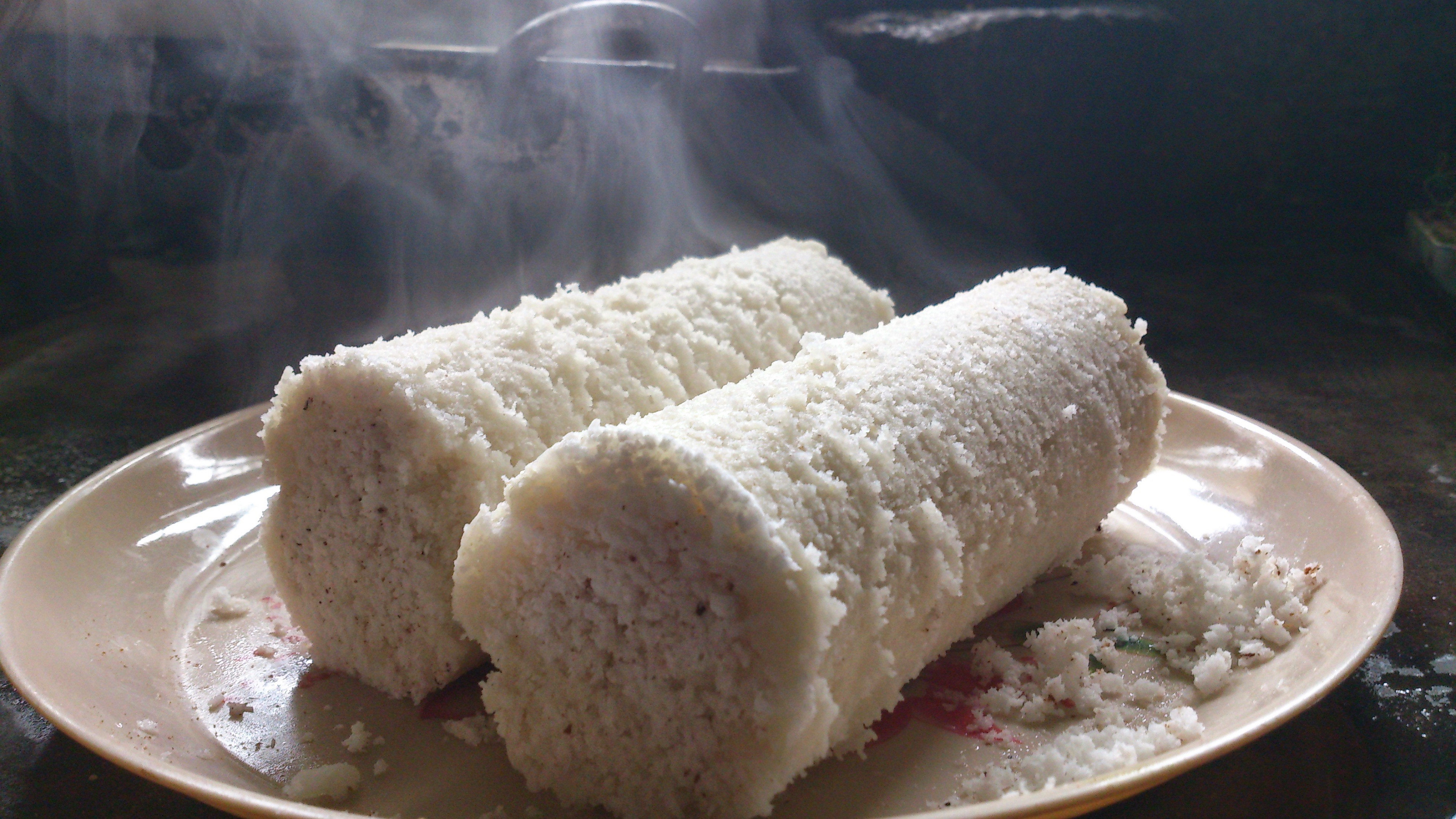 Puttu is a traditional Kerala breakfast prepared from rice flour by steaming the prepared flour in a special vessel.